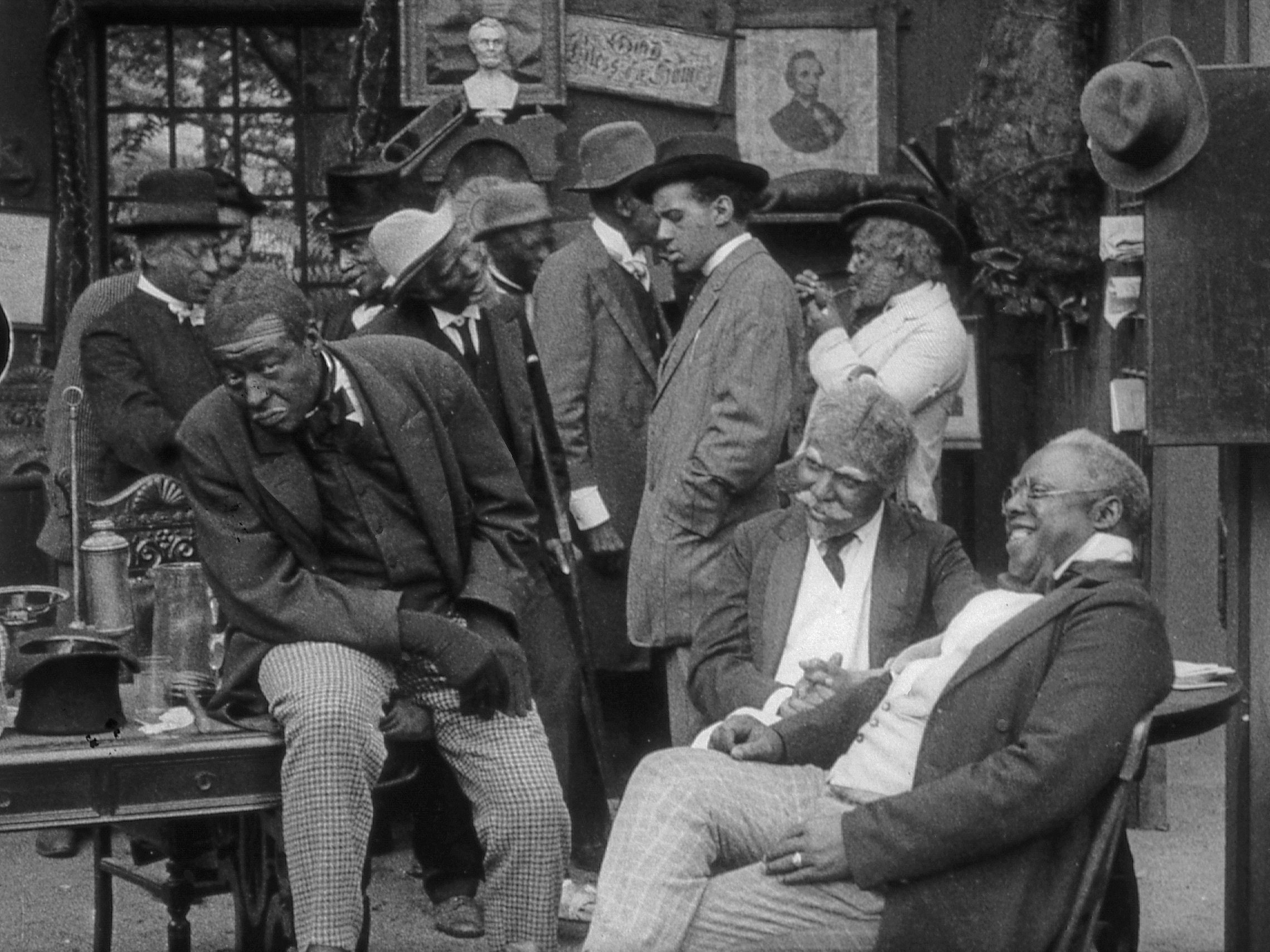 Still of cast from the film Lime Kiln Field Day. Star actor Bert Williams is shown performing in black face